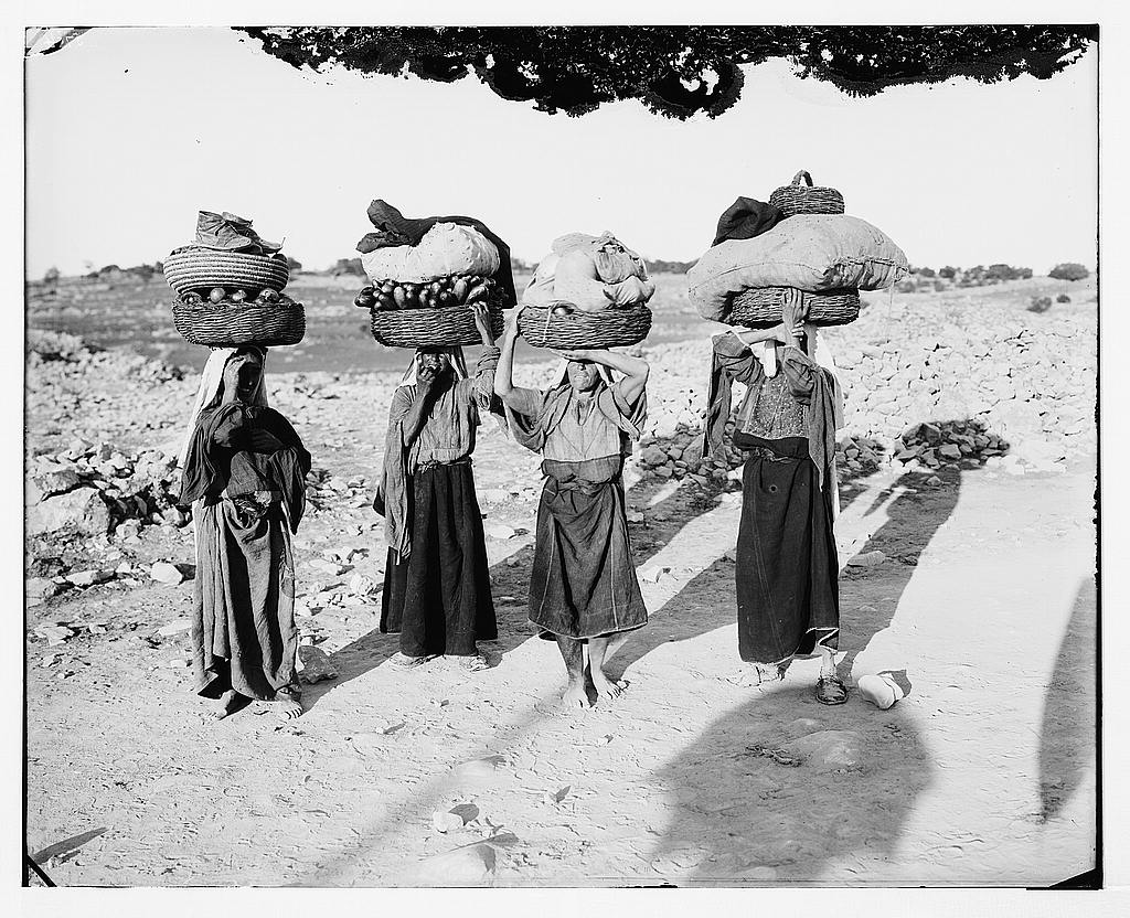 Battir